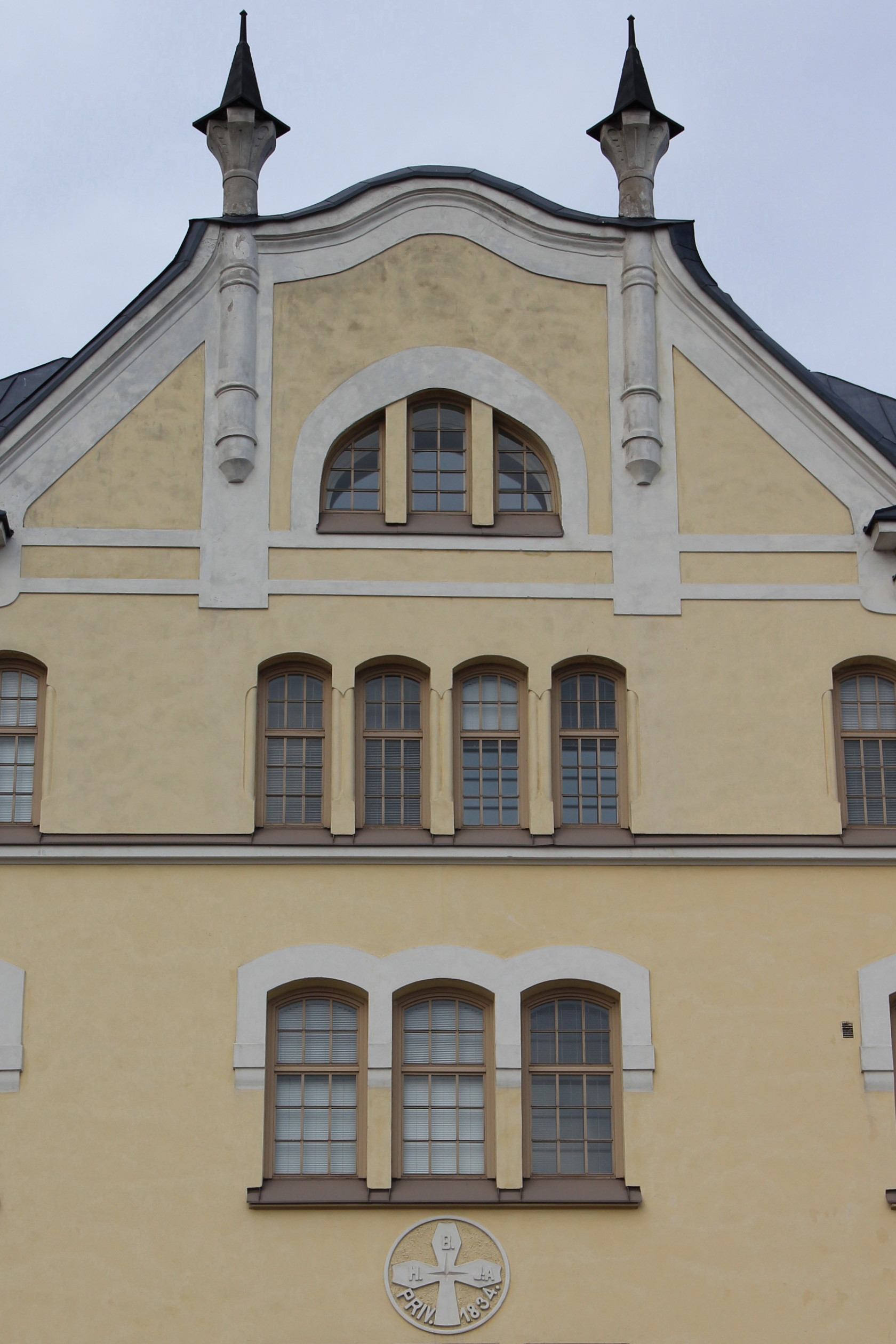 Borgström tobacco factory buildings, Meritullinkatu 1, Helsinki, Finland. - Upper part of facade towards Meritullinaukio and company symbol, cloverleaf.